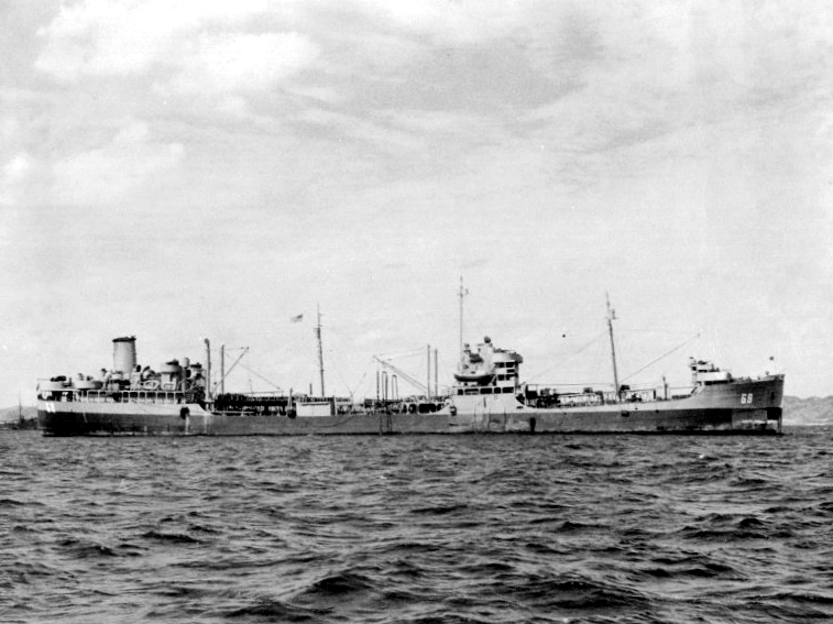 The U.S. Navy fleet oiler USS Chiwawa (AO-68) at anchor off Okinawa, Japan, on 7 September 1945.